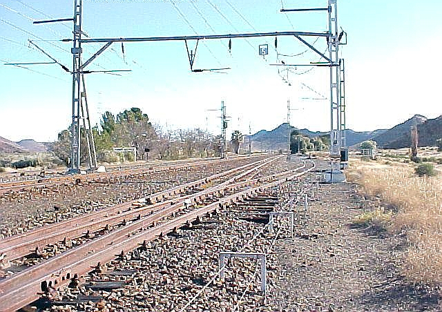 Three Sisters station, Northern Cape